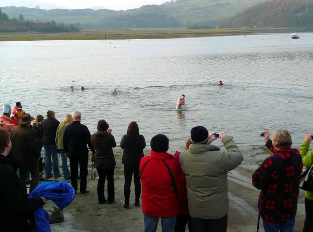 New Year's day dip The RNLI were out to supervise 5 brave souls who braved the sea on January 1st 2009.